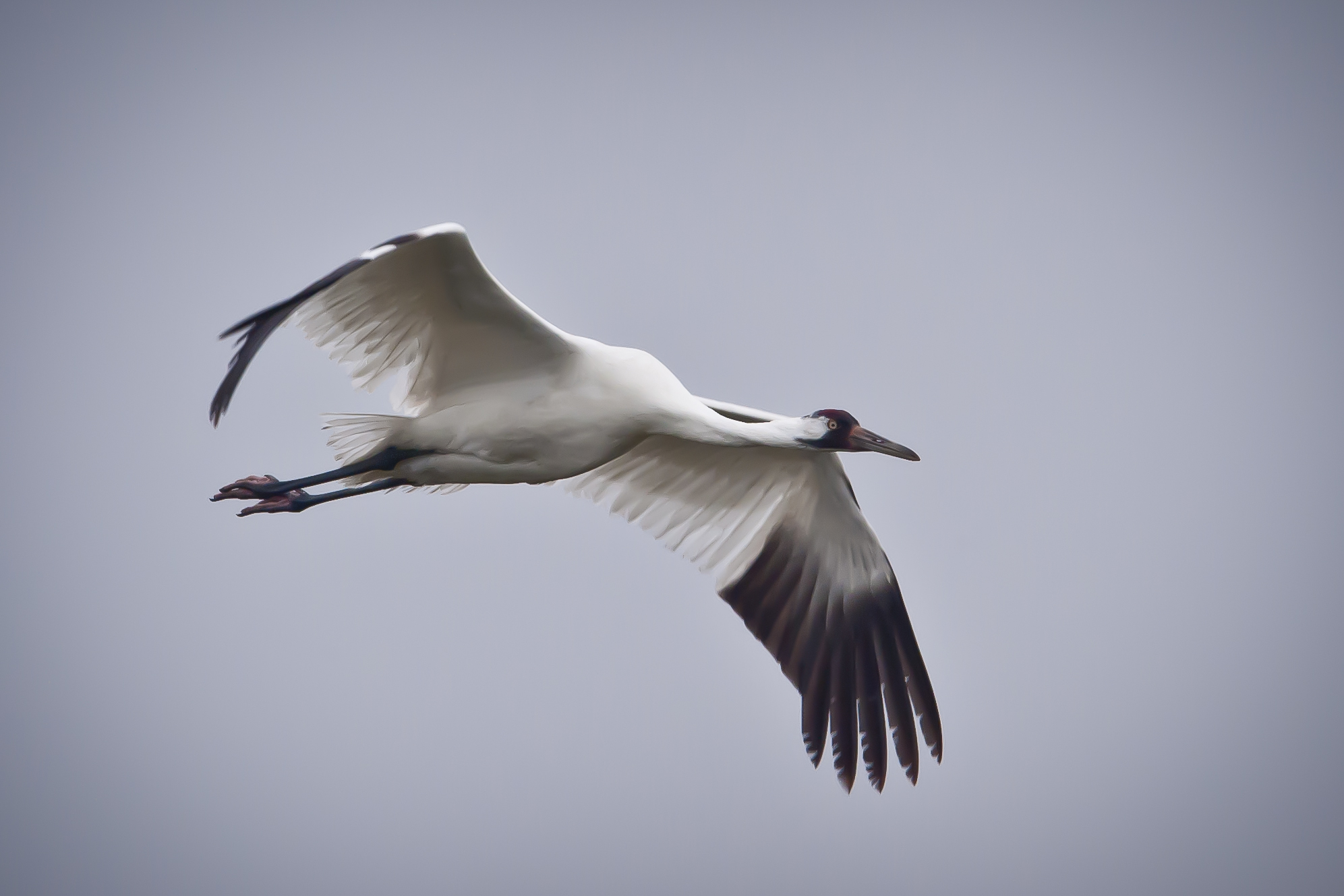 Whooping Crane in flight in Texas. USDA Photo by John Noll.